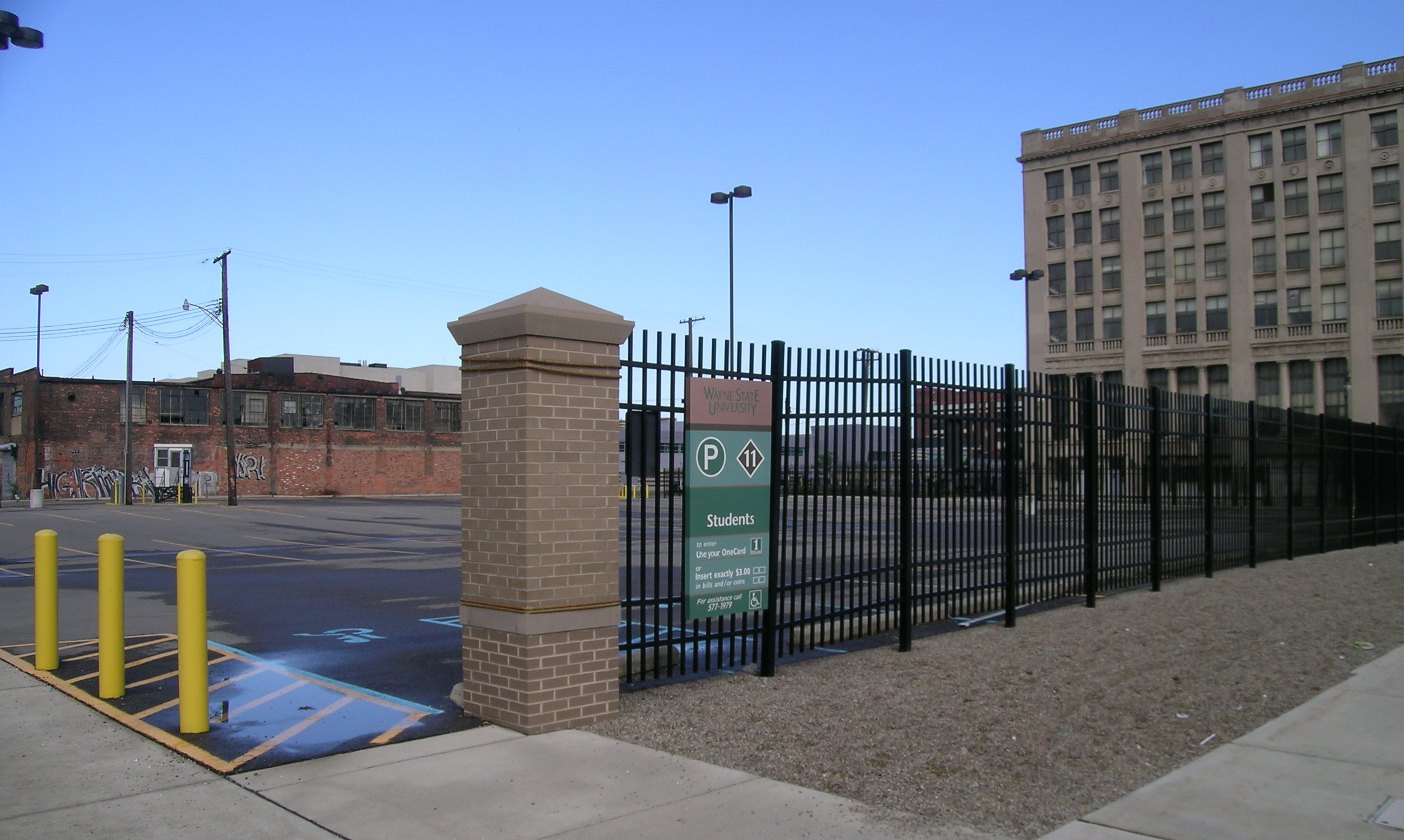 This Wayne State University parking lot at 425 York Street, Detroit, Michigan, United States, is the former site of a historic building in the New Amsterdam Historic District.